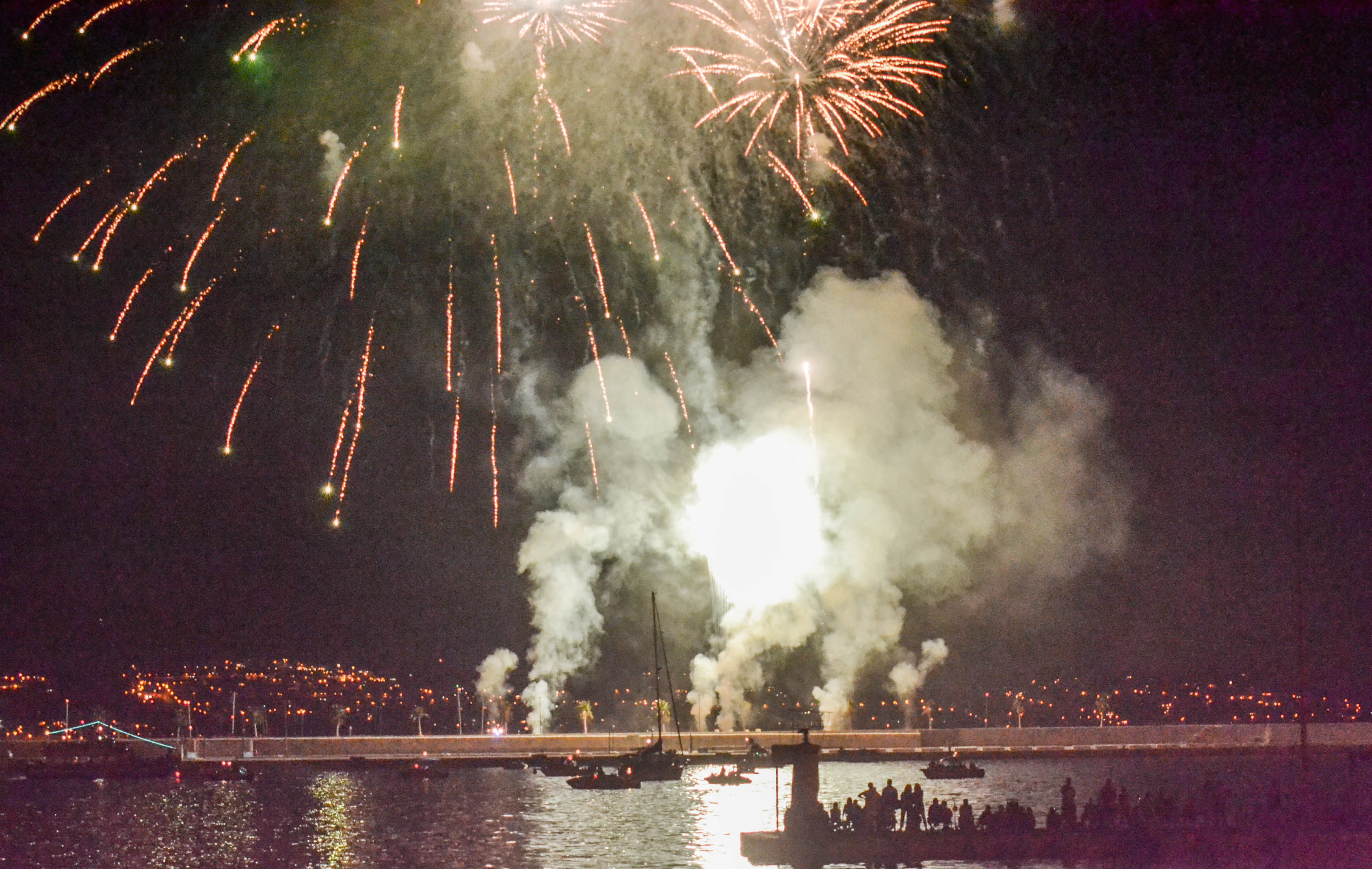 Fireworks, Feria de Málaga 2013, Spain.